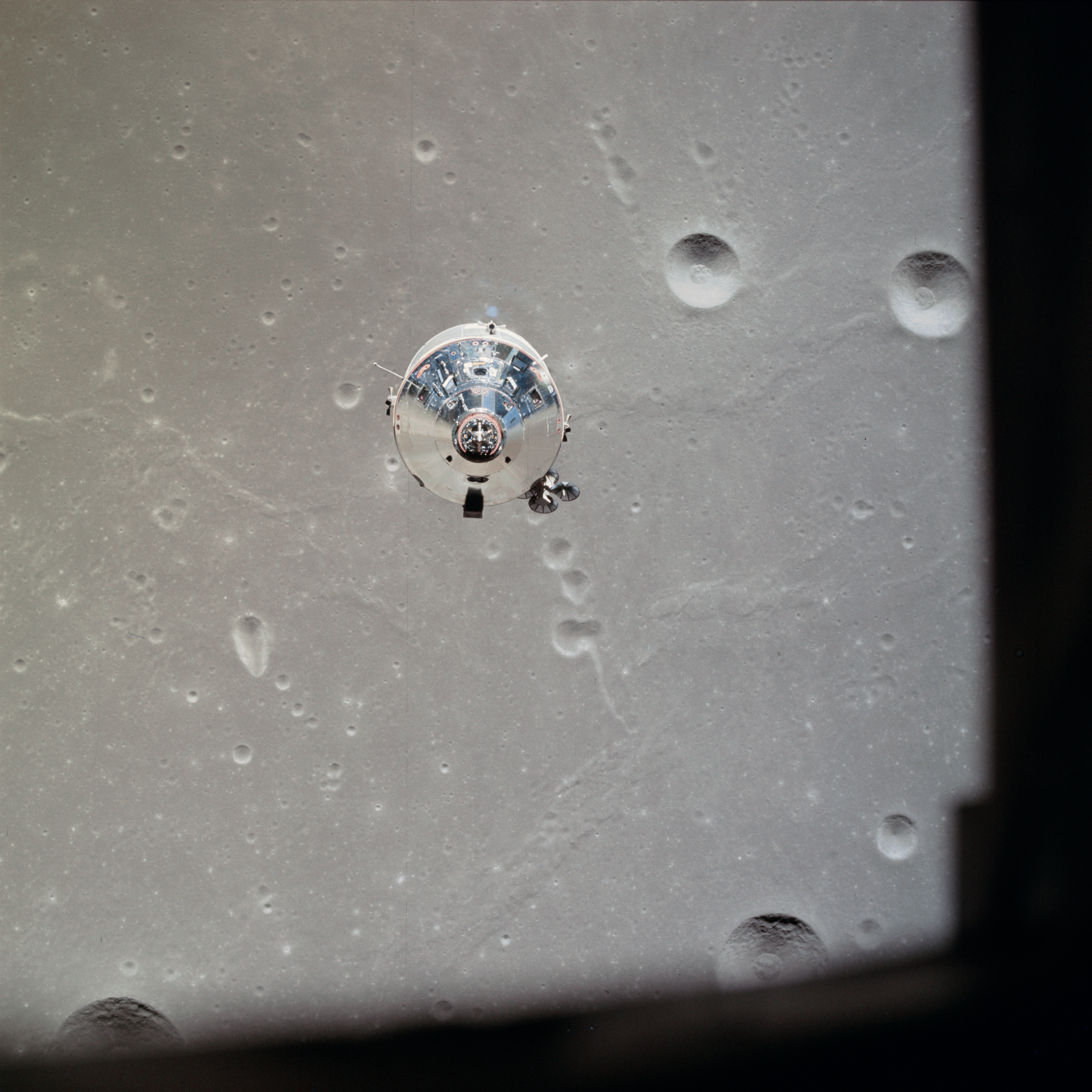 The Apollo 11 Command and Service Modules (CSM) are photographed from the Lunar Module (LM) in lunar orbit during the Apollo 11 lunar landing mission. The lunar surface below is in the north central Sea of Fertility. The coordinates of the center of the picture are 51 degrees east longitude and 1 degree north latitude. About half of the crater Taruntius G is visible in the lower left corner of the picture. Part of Taruntius H can be seen at lower right.